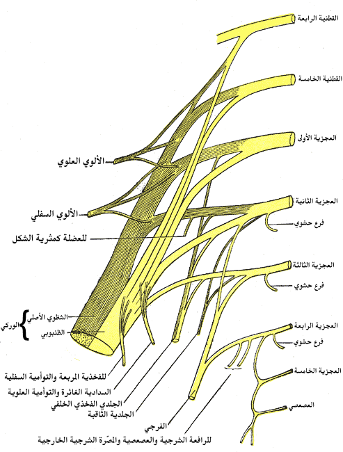 Plan of sacral and pudendal plexuses.